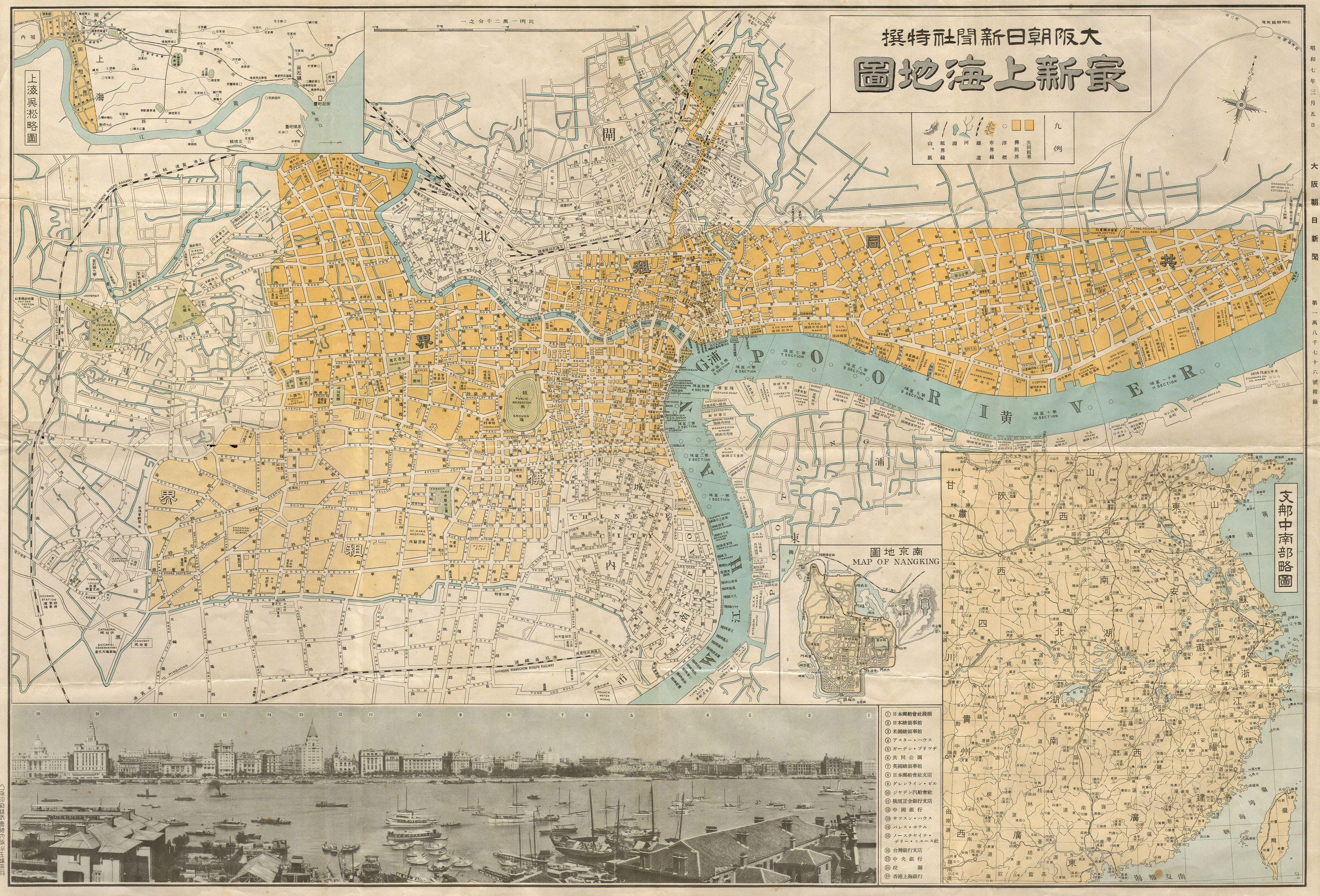 This is a rare and beautiful 1937 map of Shanghai China. It was made just around the start of the second Sino-Japanese war and World War II and is entitled War Progress in Shanghai. Printed in the 12th year of Hirohito's reign. Depicts downtown Shanghai including the Chinese Quarter, the French Concession, the English Quarter (along the Bund) etc. Important buildings along the Bund are carefully noted, including the first HSBC Bank, the British Club, the Peace Hotel & the Customs House. There is also a lovely vintage panoramic photo of the Bund along the bottom of the map. Small inset map of Nanjing or Nanking also on the map. Most of the text is written in both Chinese and English.